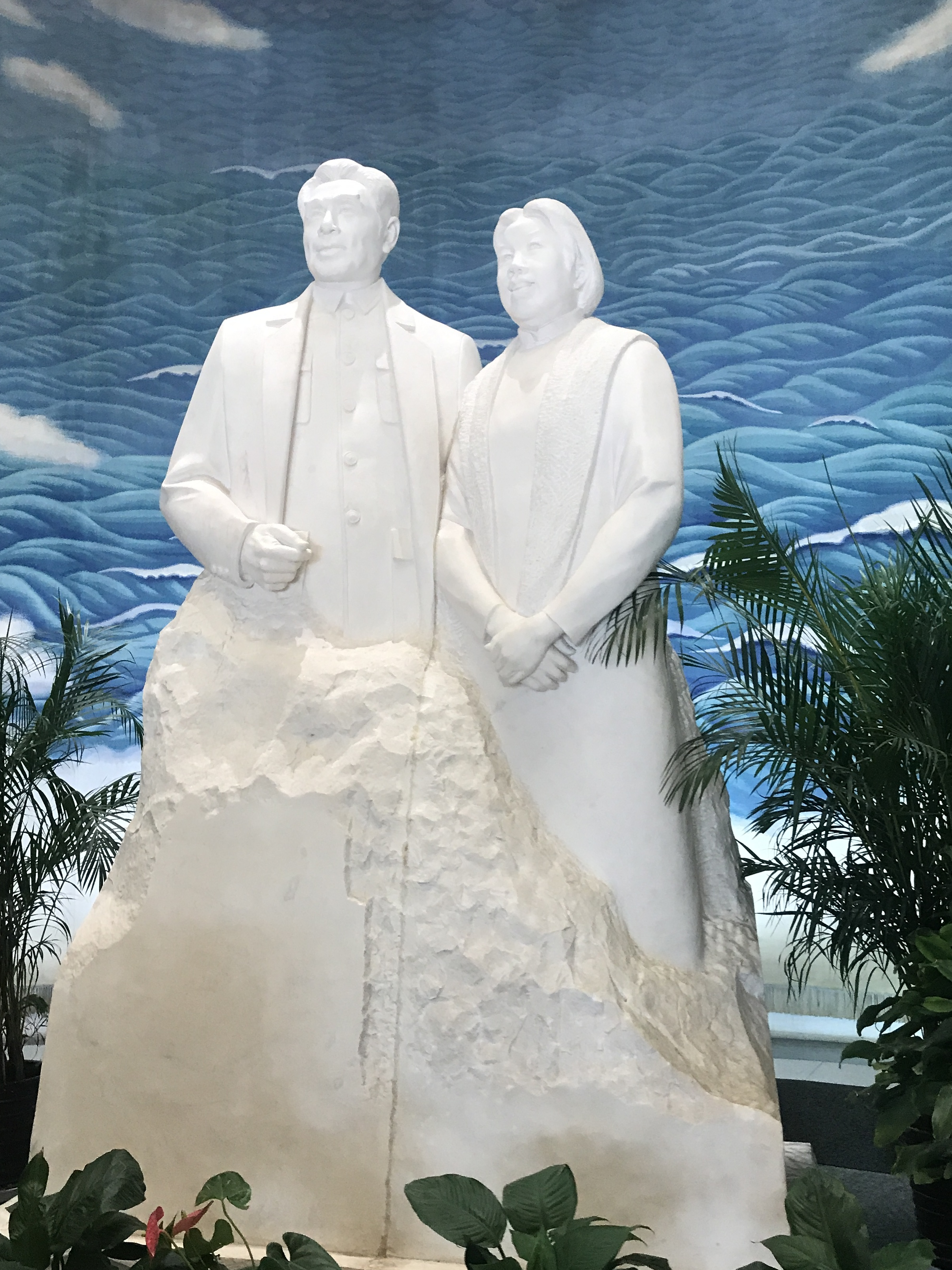 Statue of Premier Zhou Enlai and Chairwoman Deng Yingchao located at the Zhou Deng Memorial Hall in Tianjin, China.